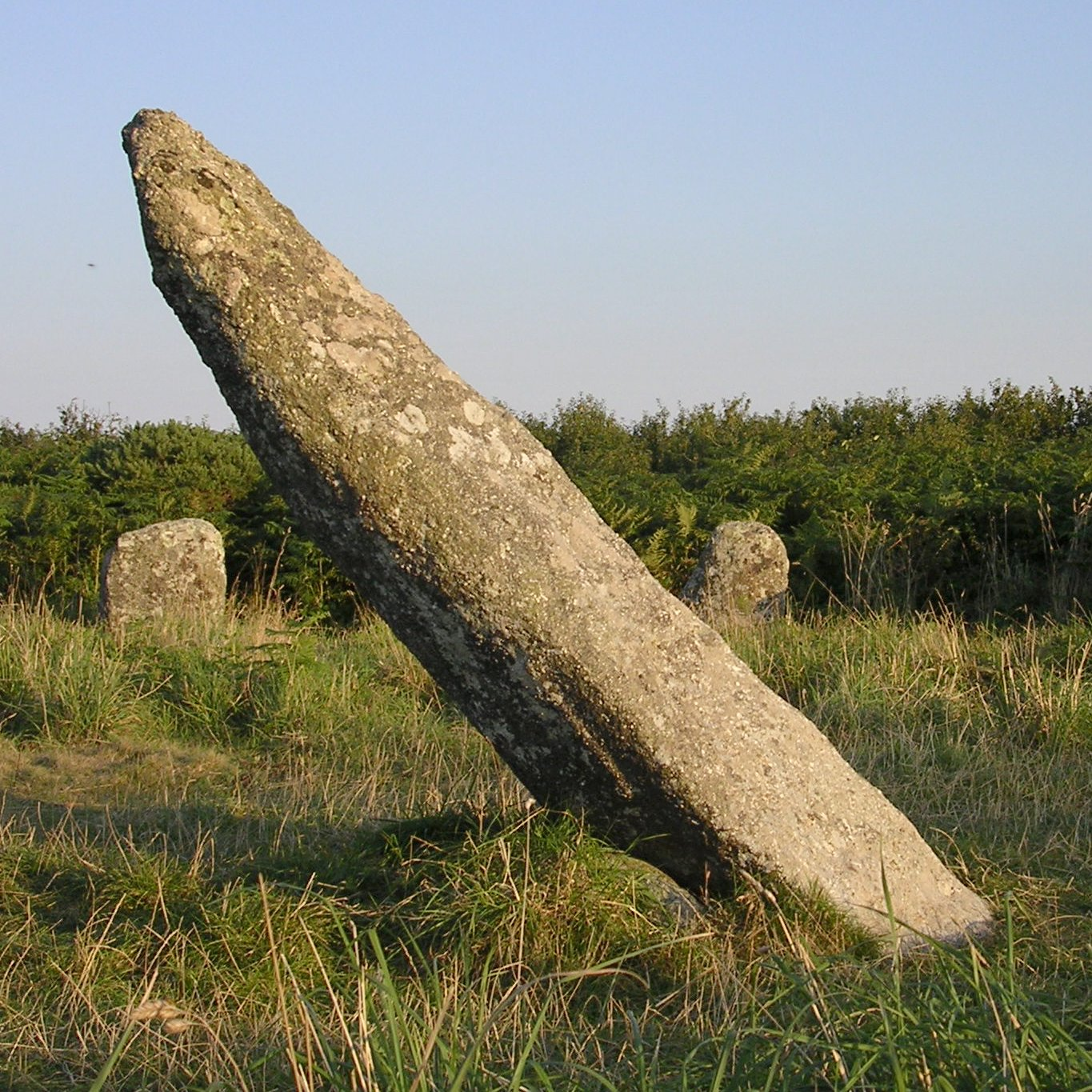 The leaning central pillar in the Boscawen-un stone circle, Cornwall